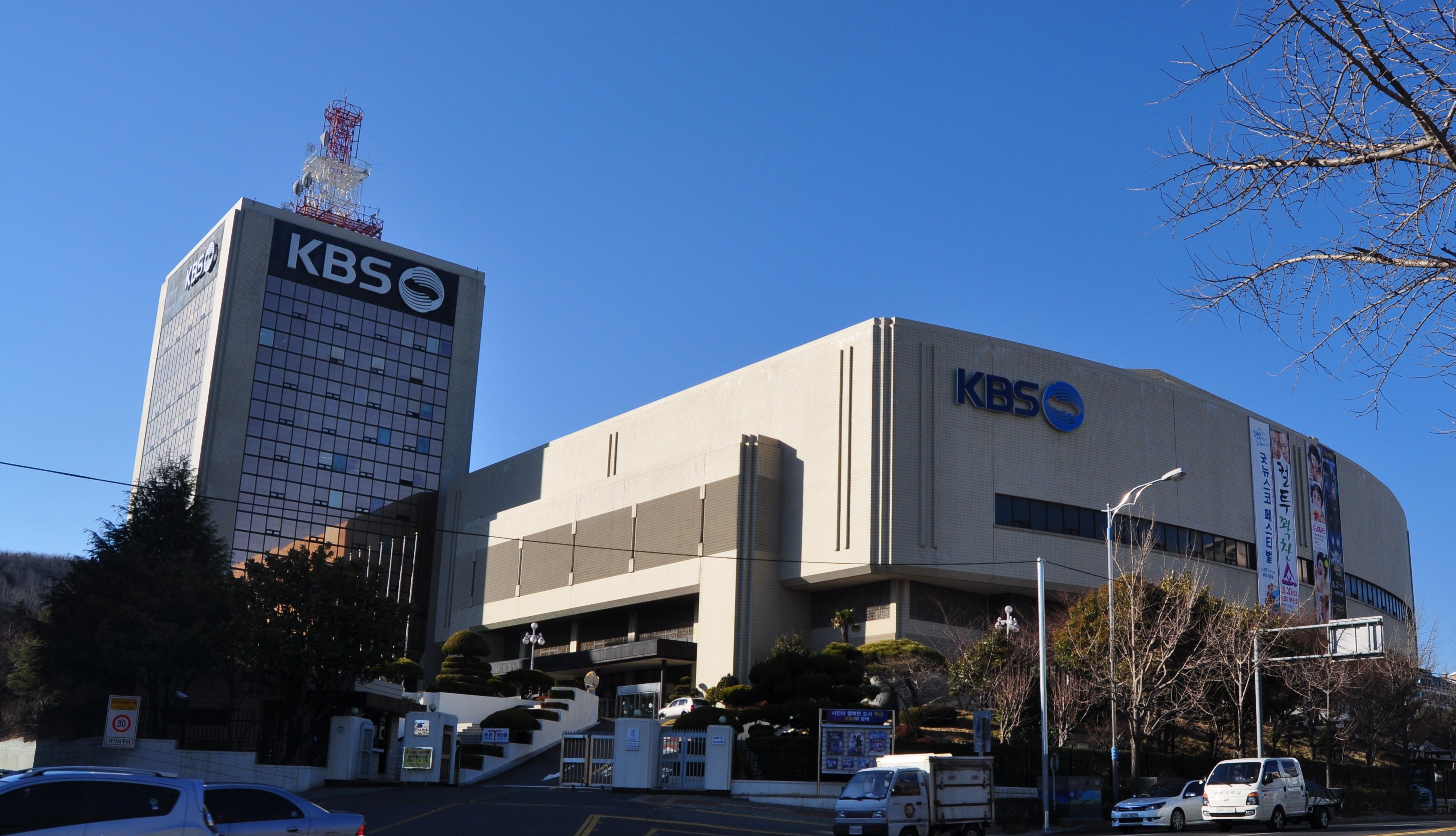 KBS Busan Broadcasting Station